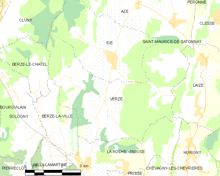 Map of French municipality